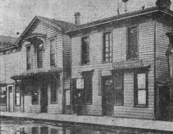 A photograph from The Oregonian of the Japanese owned buildings in Chinatown, Portland, Oregon in 1905.